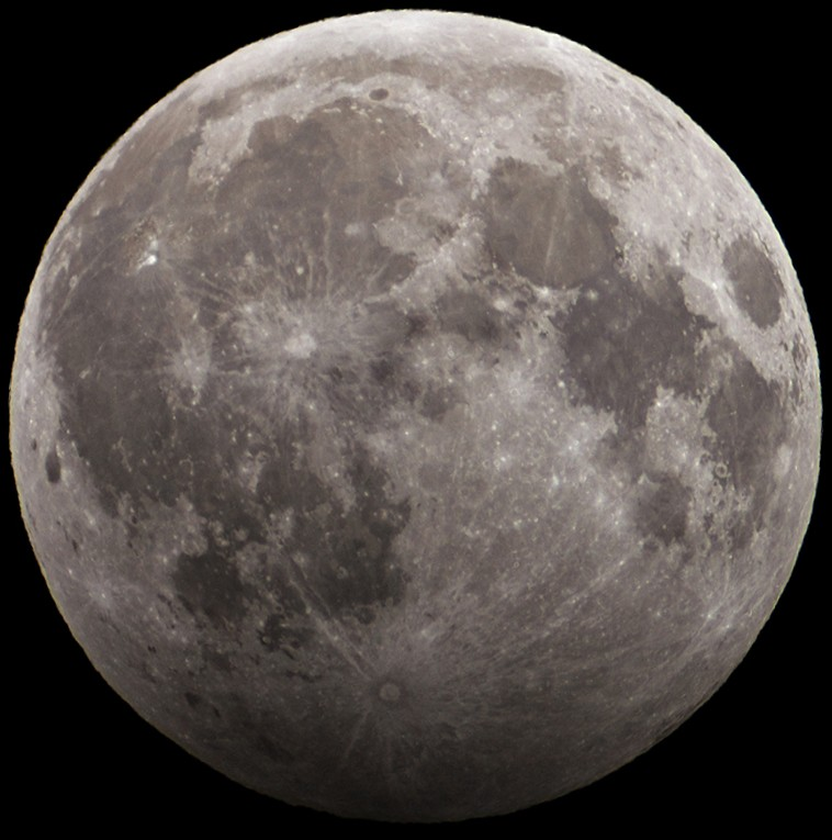 Penumbral lunar eclipse on January 10, 2020. The image in the center was taken at 19:10 UT, at maximum eclipse, when about 90% of the Moon has immersed into the Earth's penumbra.